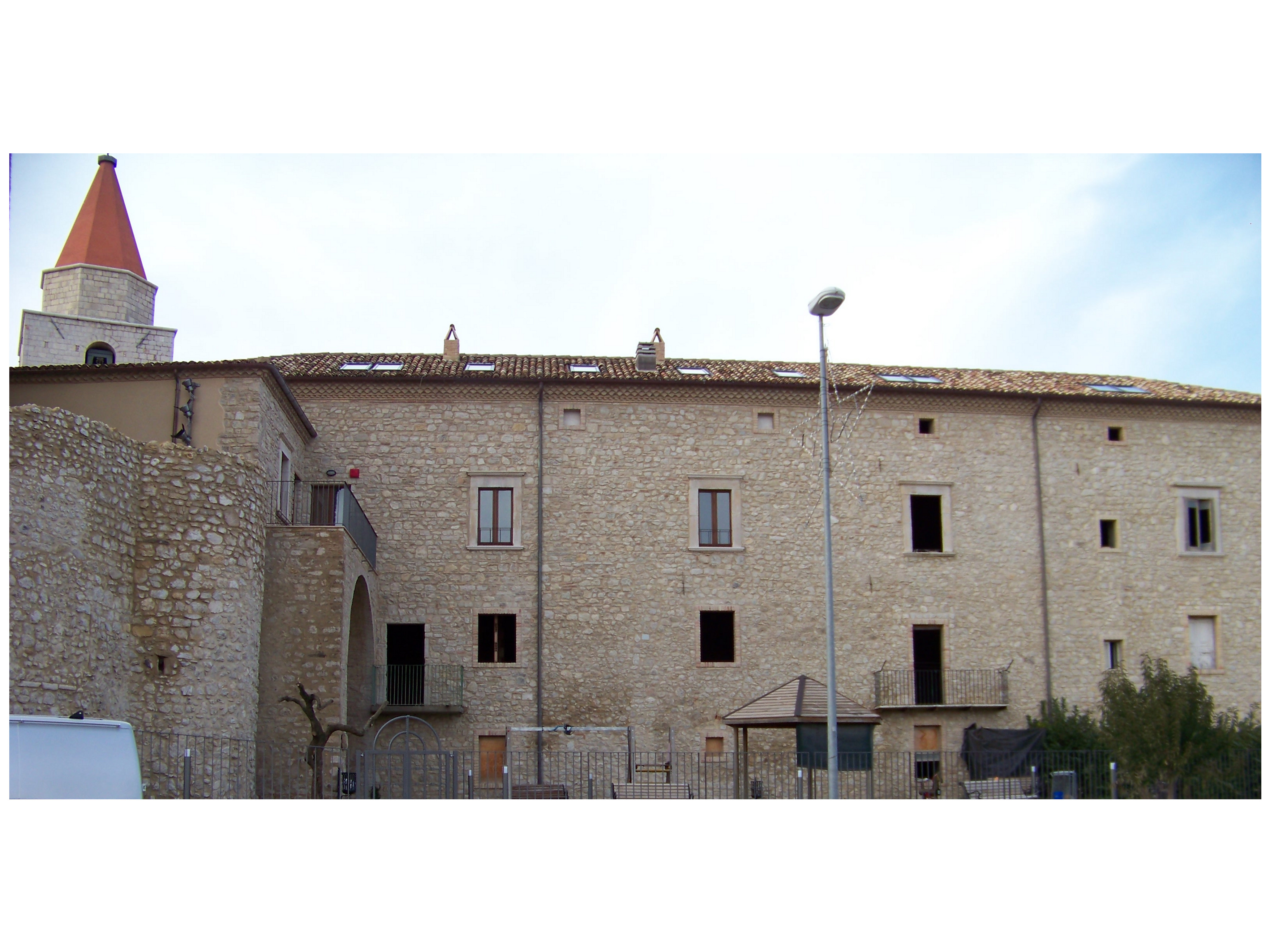 Palazzo Marchesale in Colletorto ,Campobasso,italy